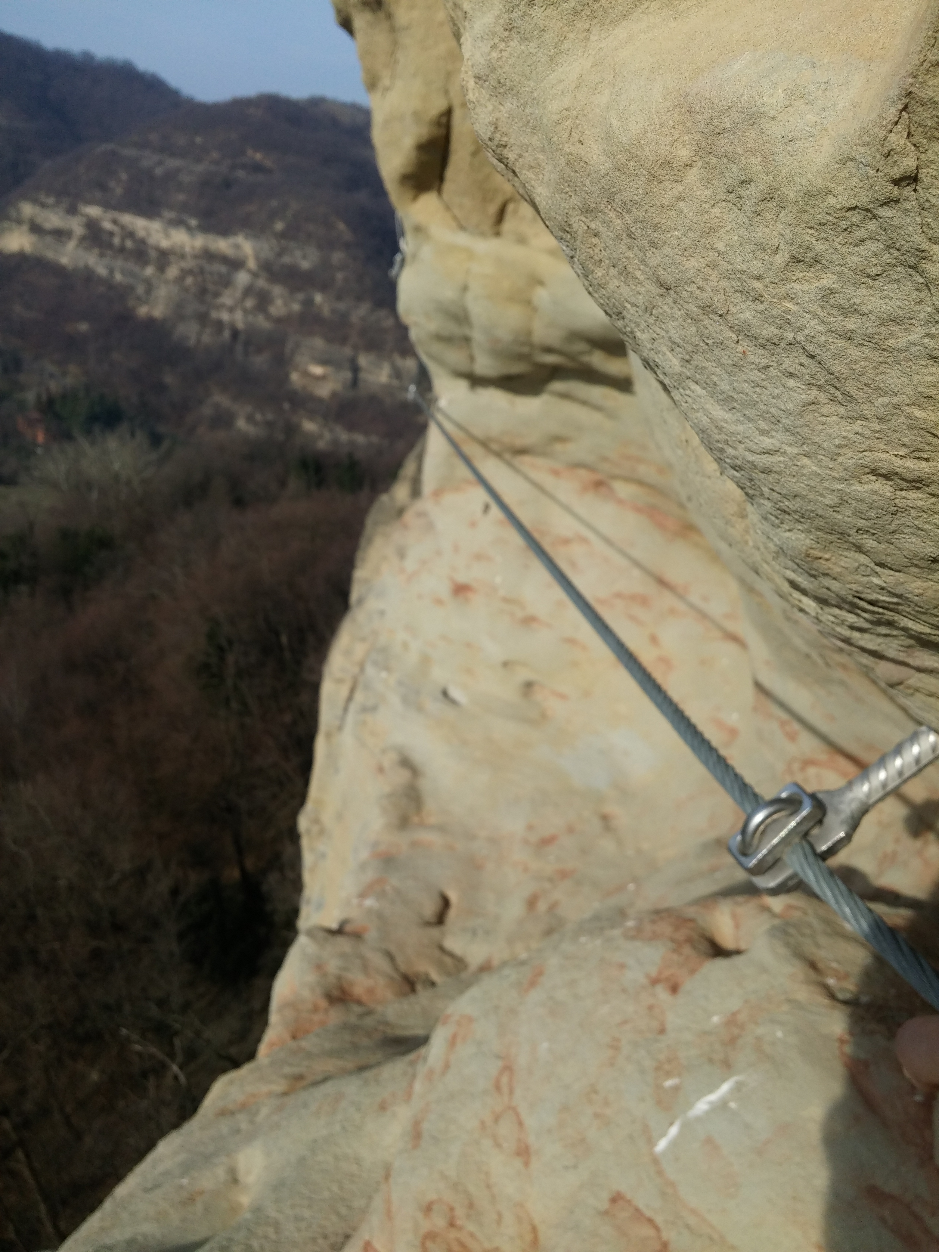 cengia esposta